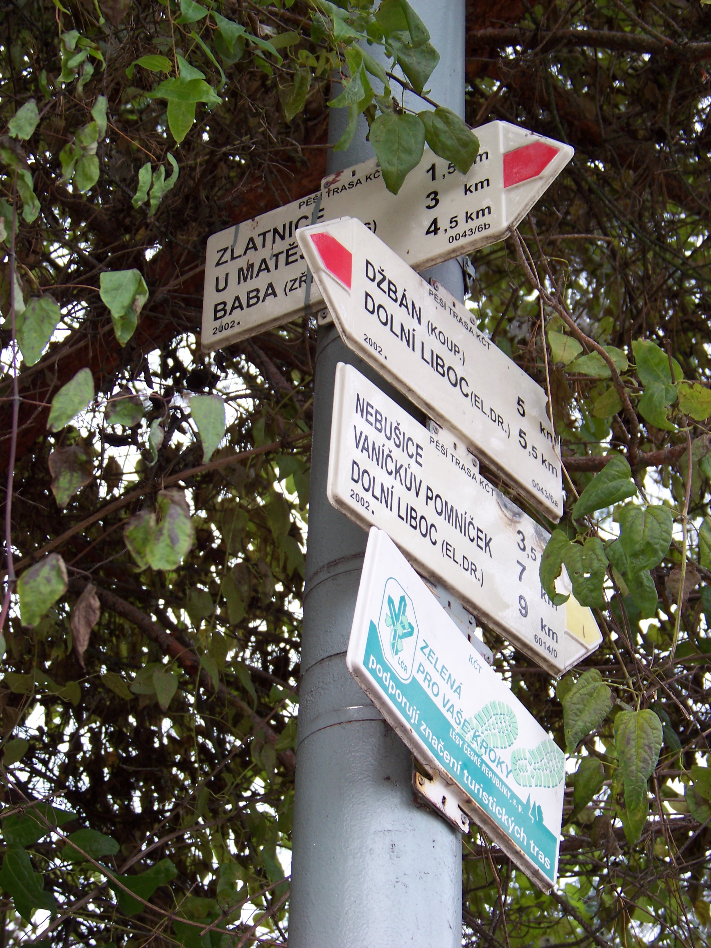 Prague-Dejvice, the Czech Republic. Jenerálka, Horoměřická street, a hiking fingerpost.